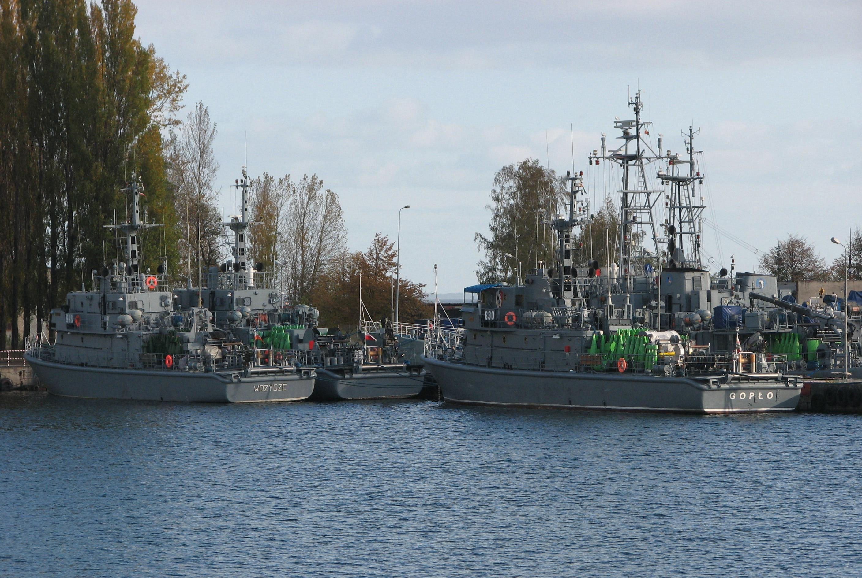 Polish minesweepers class in Gdynia. The first are ORP Wdzydze (Project 207M class) and ORP Gopło (Project 207D class)